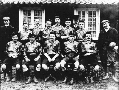 Group photo of the Belgian national football squad before the match against The Netherlands.